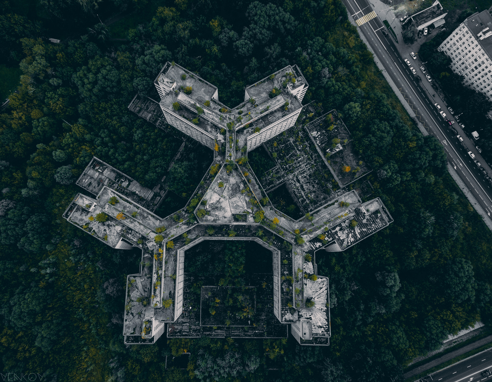 500px provided description: Abandoned hospital in Moscow, Russia [#trees ,#russia ,#moscow ,#architecture ,#cars ,#road ,#building ,#white ,#green ,#dark ,#abandoned ,#high ,#scare ,#geometric ,#drone ,#high angle ,#dji ,#mavicpro]